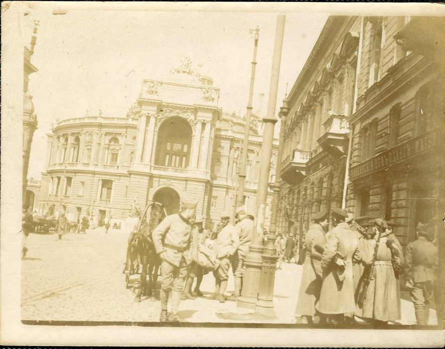 View of Odessa street during French intervention (circa spring 1919) - аftermath of WWI - part of Allied intervention into former Russian Empire